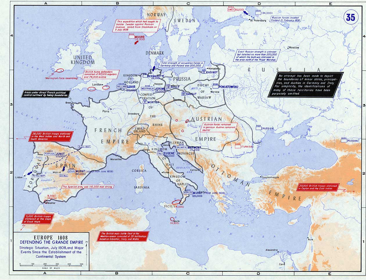 Strategic Situation of Europe, 1808